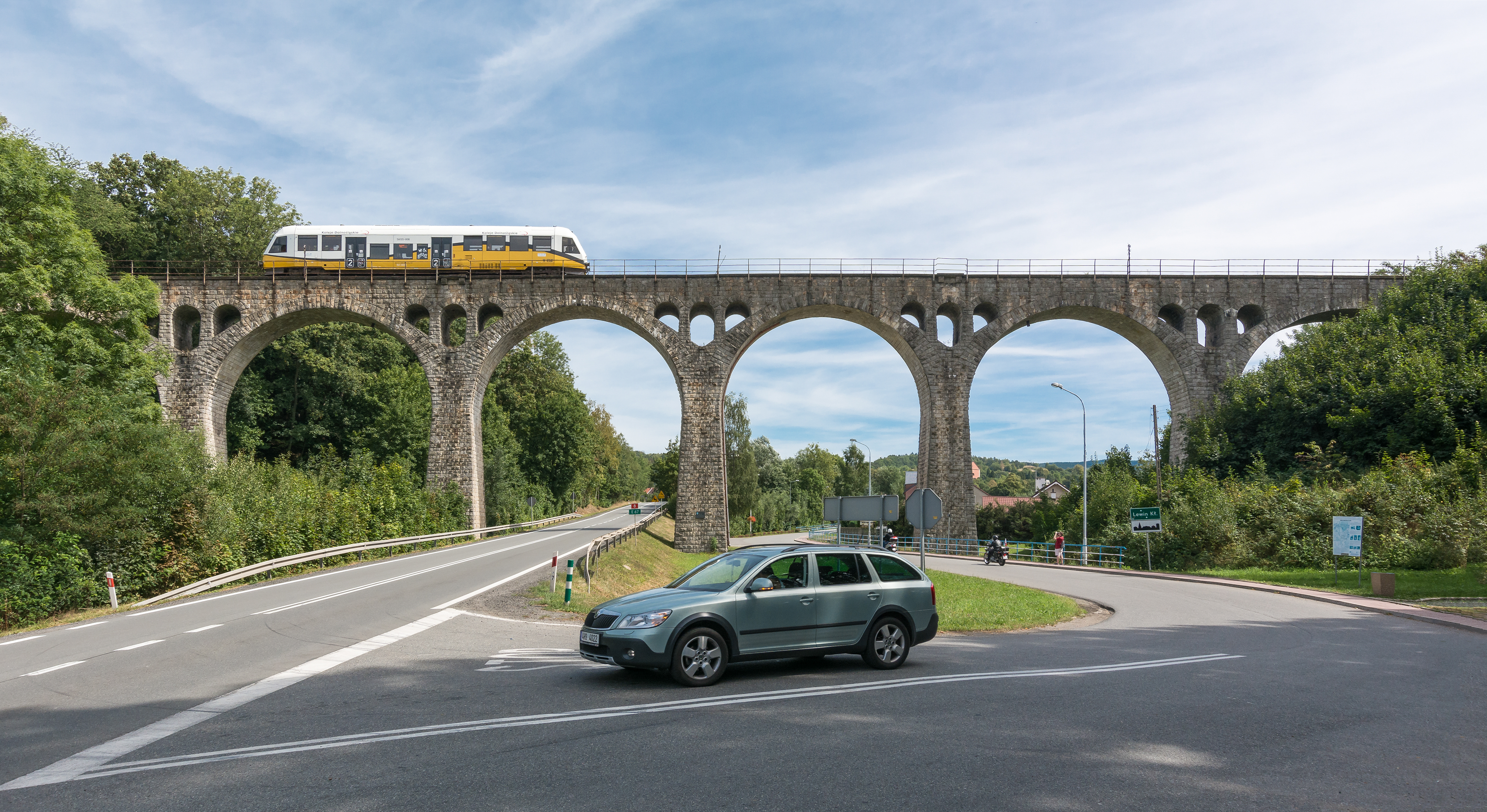 Overpass in Lewin Kłodzki